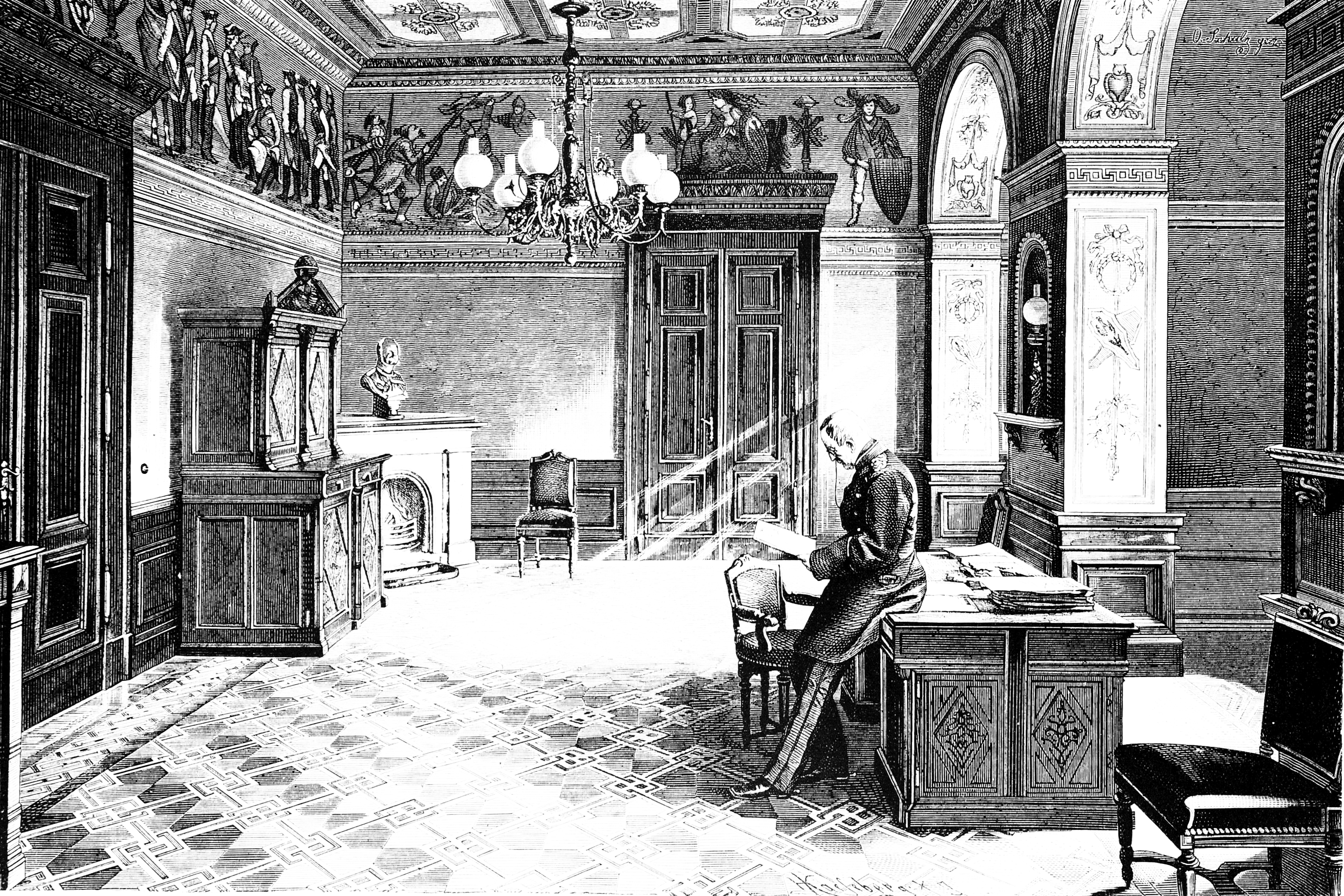 caption: "Moltke im Vortragszimmer des Generalstabsgebäudes.Nach einer Photographie auf Holz gezeichnet von O. Schulz."